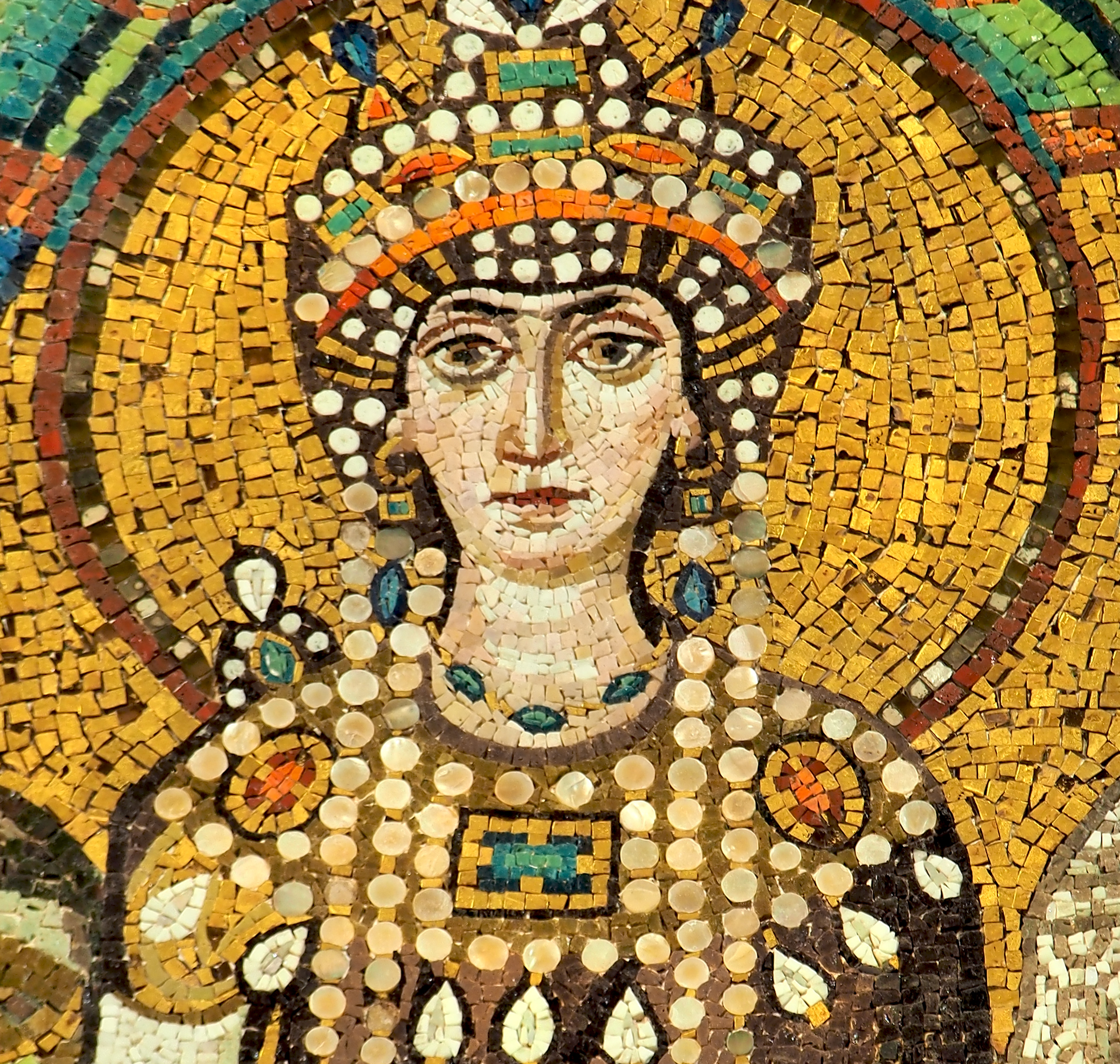 Mosaic of Theodora - Basilica of San Vitale (built A.D. 547), Italy. UNESCO World heritage site. This photograph was taken with an Olympus E-P5